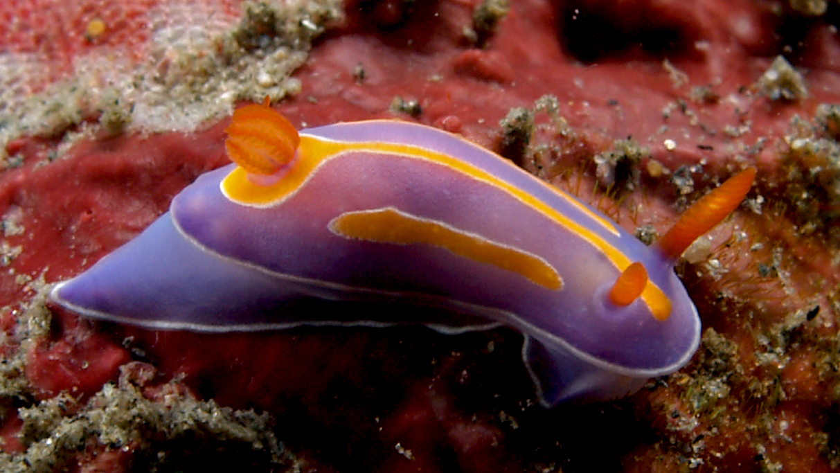 Pectenodoris trilineata, a rarely encountered nudibranch.